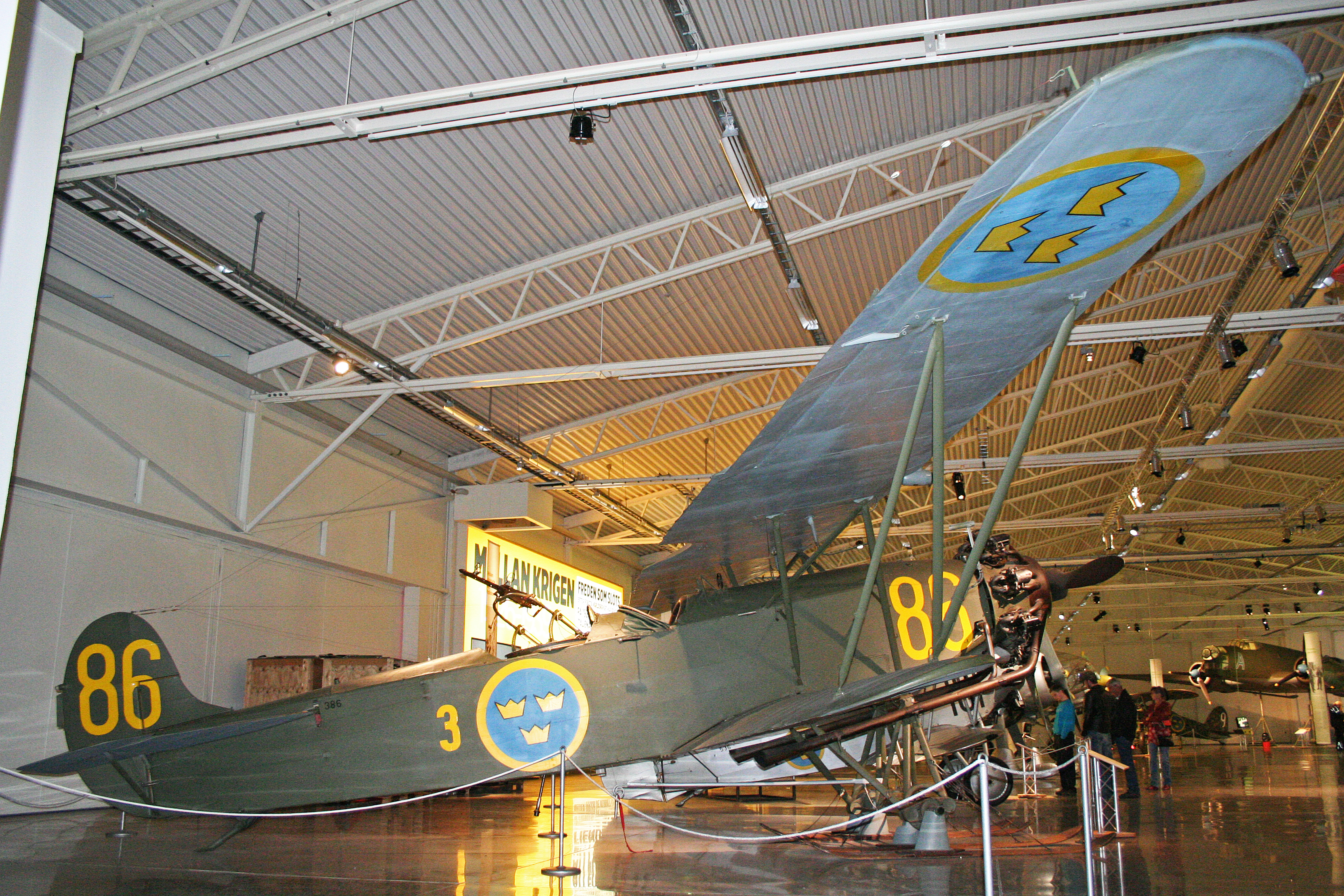 Built by CVM in Sweden in 1934. Displayed on skis with F3 unit markings. msn 207. Flyvapenmuseum, Malmen, Sweden. 04-06-2012